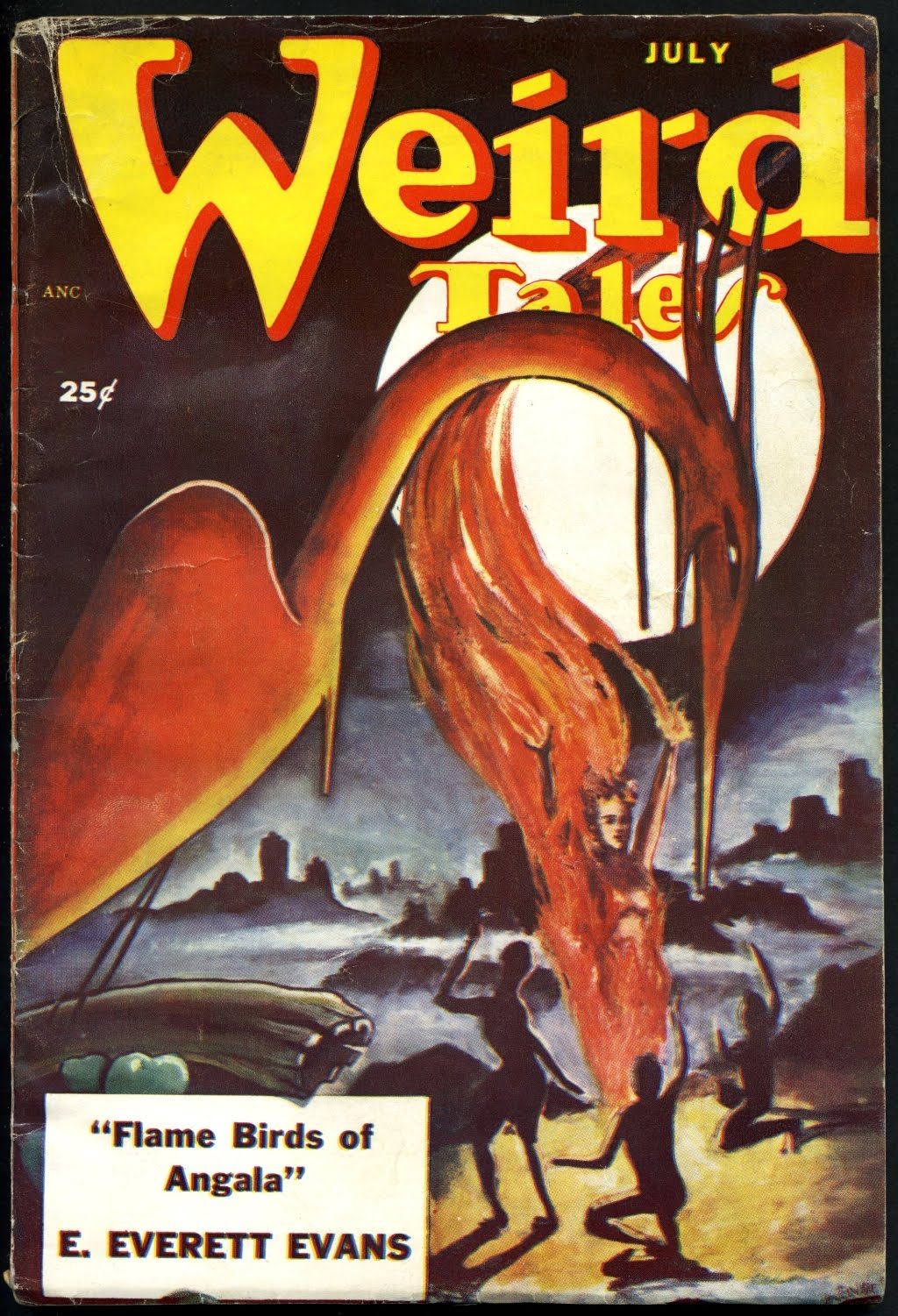 Cover of the pulp magazine Weird Tales (July 1951, volume 43, number 5) featuring "Flame Birds of Angala" by E. Everett Evans. Cover art by Charles A. Kennedy.